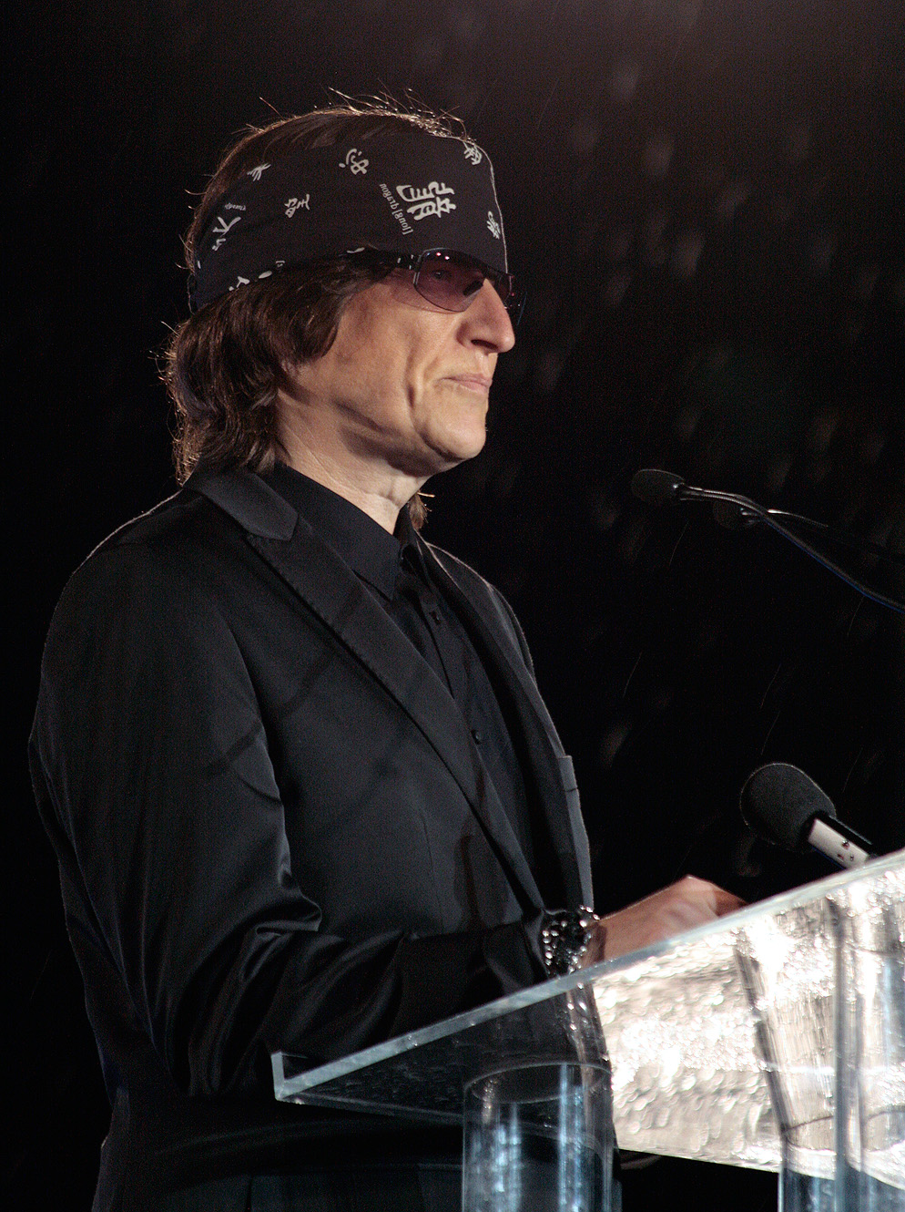 Gottfried Helnwein during the Save the World Awards 2009 (Zwentendorf Nuclear Power Plant, Lower Austria).